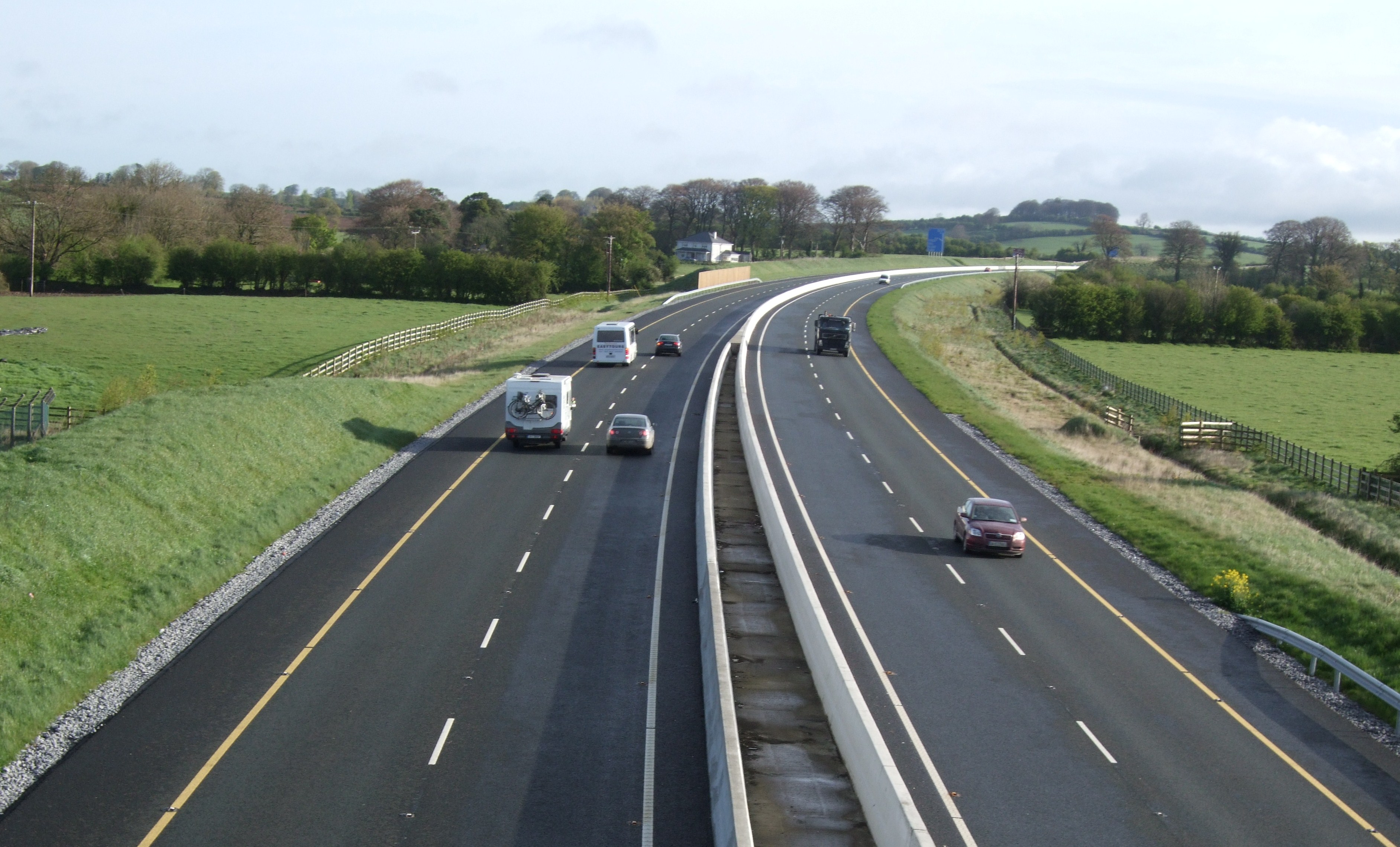 Various M8 motorway (Ireland) photos